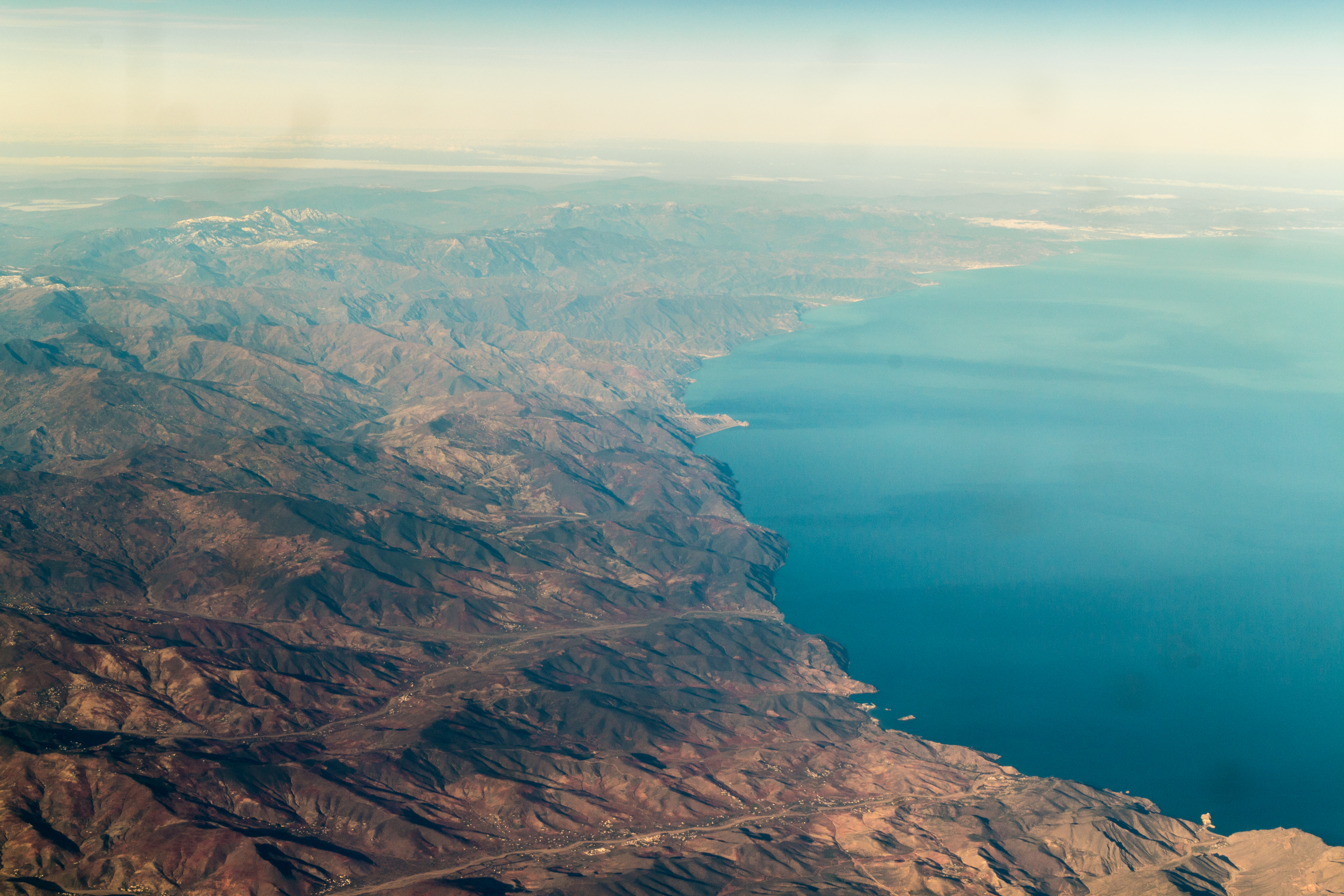 Marocco Mediterrane Coast (West Side) - Air Photo form Bades over El Jebha to Tétouan with Rif mountains, Tangier-Tetouan region